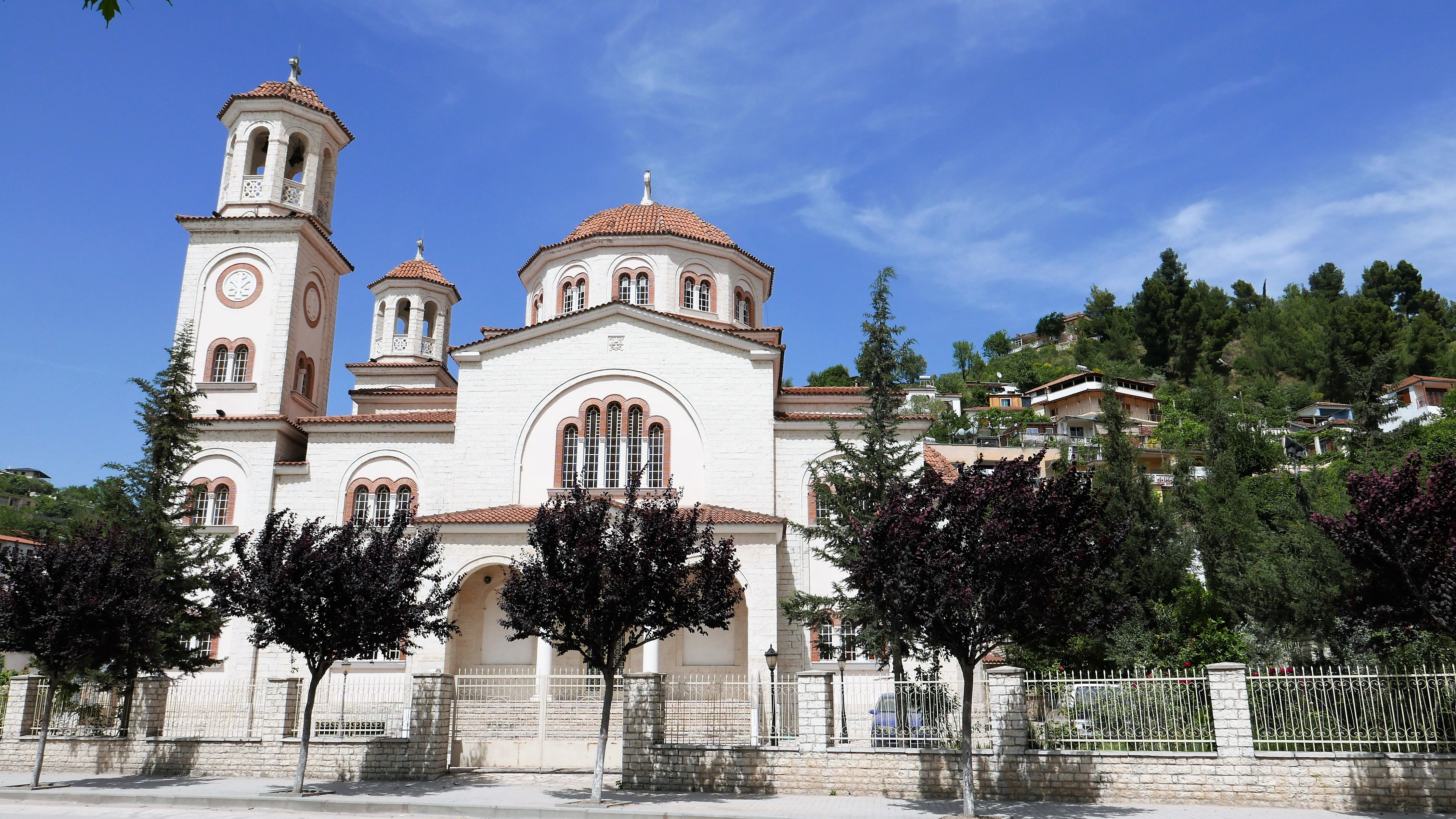 Church in Berat